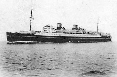 Postcard detail of the NYK Line ship Tatsuta Maru. Sailed from Japan to LA and San Francisco in 1930–1941.